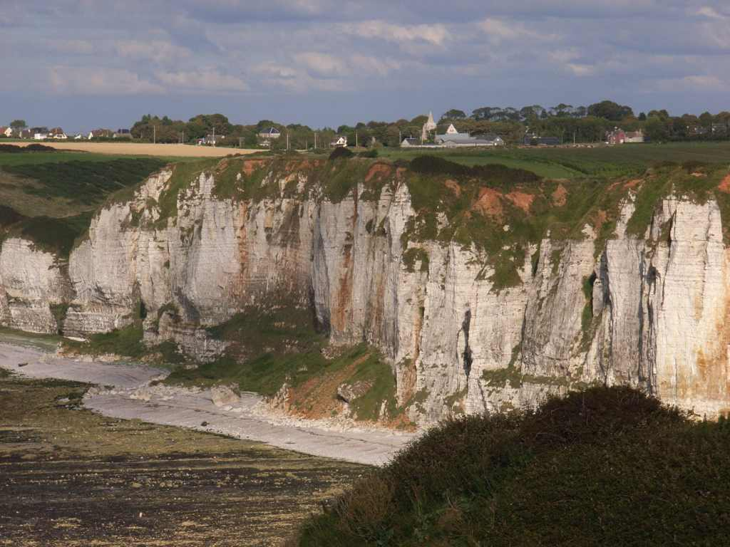 Criquebeuf-en-Caux, FR, View form the cliffs of Yport